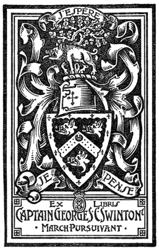 Fig. 741.—Bookplate of Captain George S. Swinton, March Pursuivant of Arms.